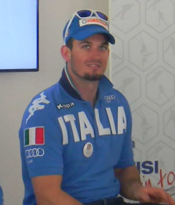 Dominik Paris, italian alpine skier, photographed in Milan